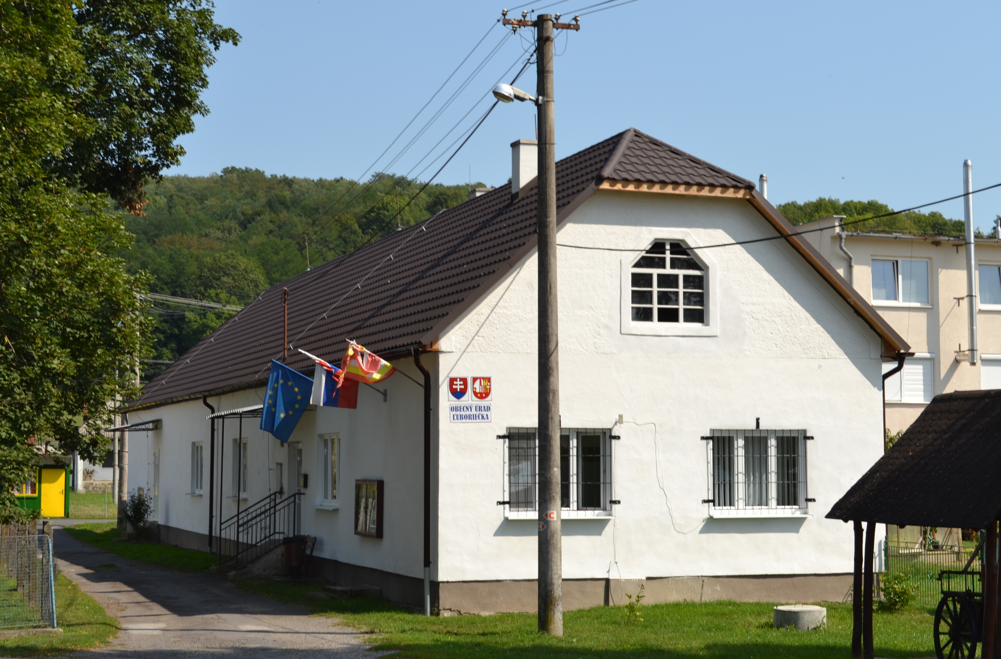 Municipal Office in the village Ľuboriečka